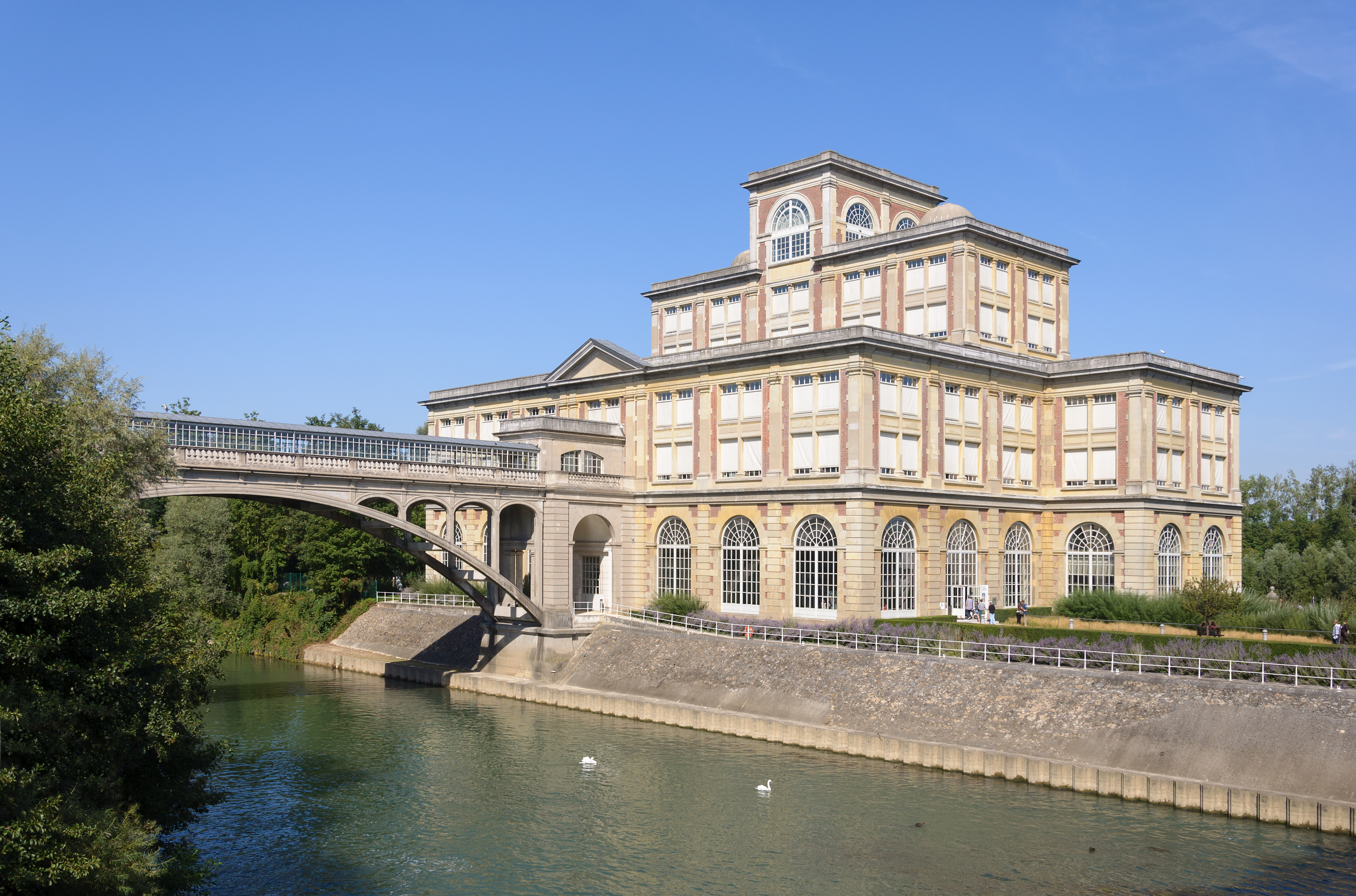 Former Menier chocolate factory in Noisiel, Seine-et-Marne, France: the new chocolate factory building, so called “the Cathedral”. Built in 1906 in reinforced concrete (béton fretté). Architect: Stephen Sauvestre, in collaboration with Armand Considère. A concrete bridge so-called Pont Hardi across the Marne River links this building to the other plants. .